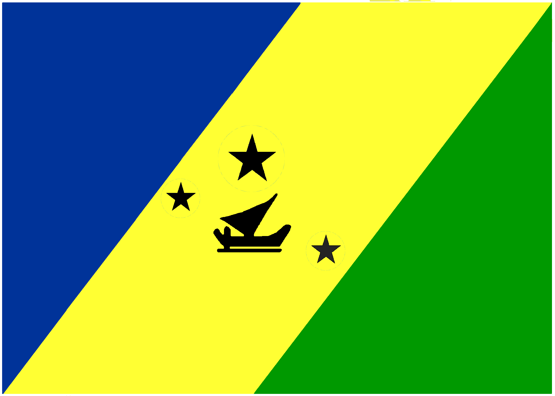 Flag of Torba, Vanuatu